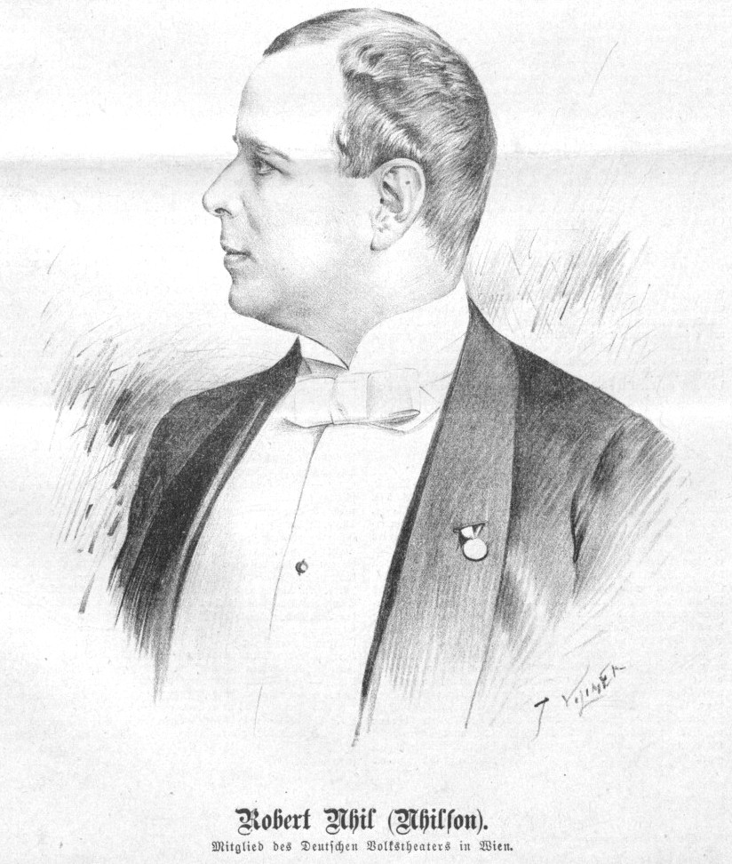 Portrait of Robert Nhil (1858-1938), German actor.